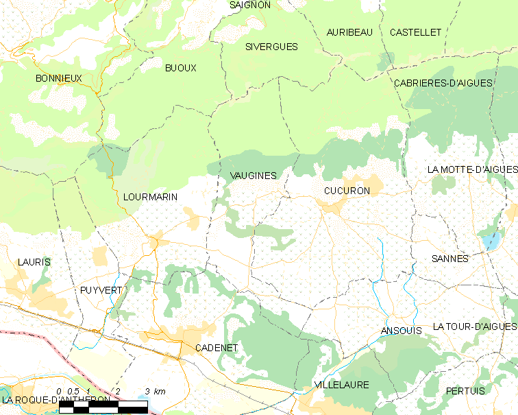 Map of French municipality Vaugines